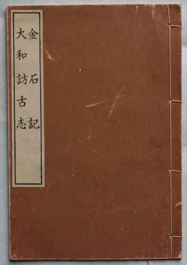 KINSEKI_KI by YASHIRO HIROKATA and YAMATO_HOUKOSHI by MATUZAKI KENDO published in 1923